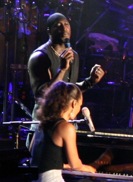 Jermaine Paul singing background vocals at Alicia Keys concert.